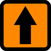 Logo of None of the Above, a political party in Serbia